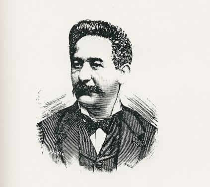 Portrait of José Maria da Cunha Seixas, a Portuguese philosopher and writer. Source: Diario Illustrado, nº 4128, Lisboa, 27/10/1884